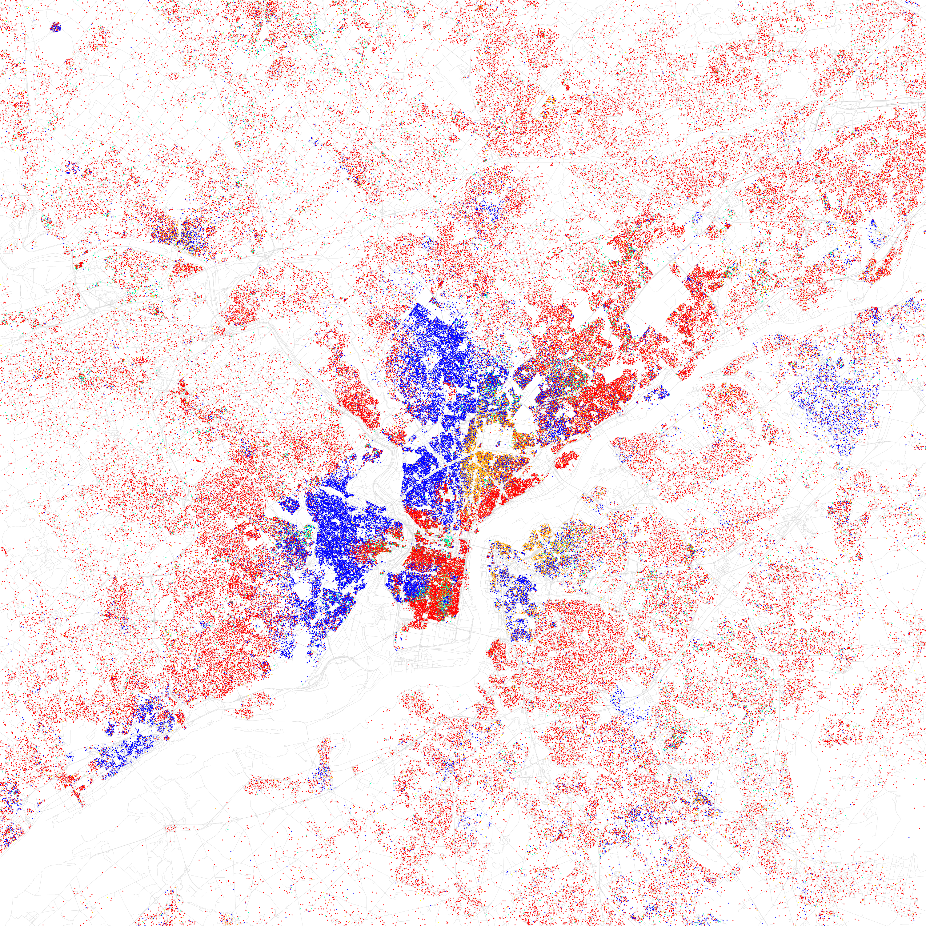 Maps of racial and ethnic divisions in US cities, inspired by Bill Rankin's map of Chicago, updated for Census 2010. Red is White, Blue is Black, Green is Asian, Orange is Hispanic, Yellow is Other, and each dot is 25 residents. Data from Census 2010. Base map © OpenStreetMap, CC-BY-SA